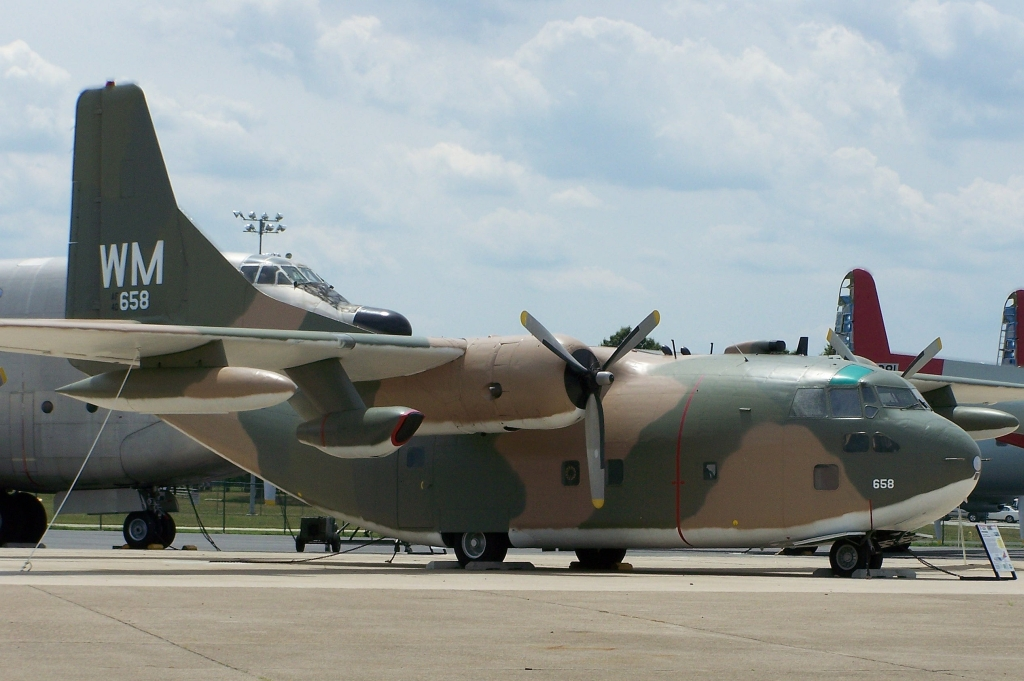 A Fairchild C-123K Provider (s/n 54-0658) of the U.S. Air Force "Air Mobility Command Museum" at Dover Air Force Base, Delaware (USA). The aircraft is painted in the colours of the 315th Air Commando Wing (Troop Carrier) (1968 Special Operations Wing, and 1970 Tactical Airlift Wing), 319th SOS/TAS, tail code "WH" where this aircraft served in Vietnam. The Wing was deactivated in 1972. Later this aircraft was supplied by the U.S. Department of State to Peru and used to fight drug traffickig. In 1990 it was donated to the museum.